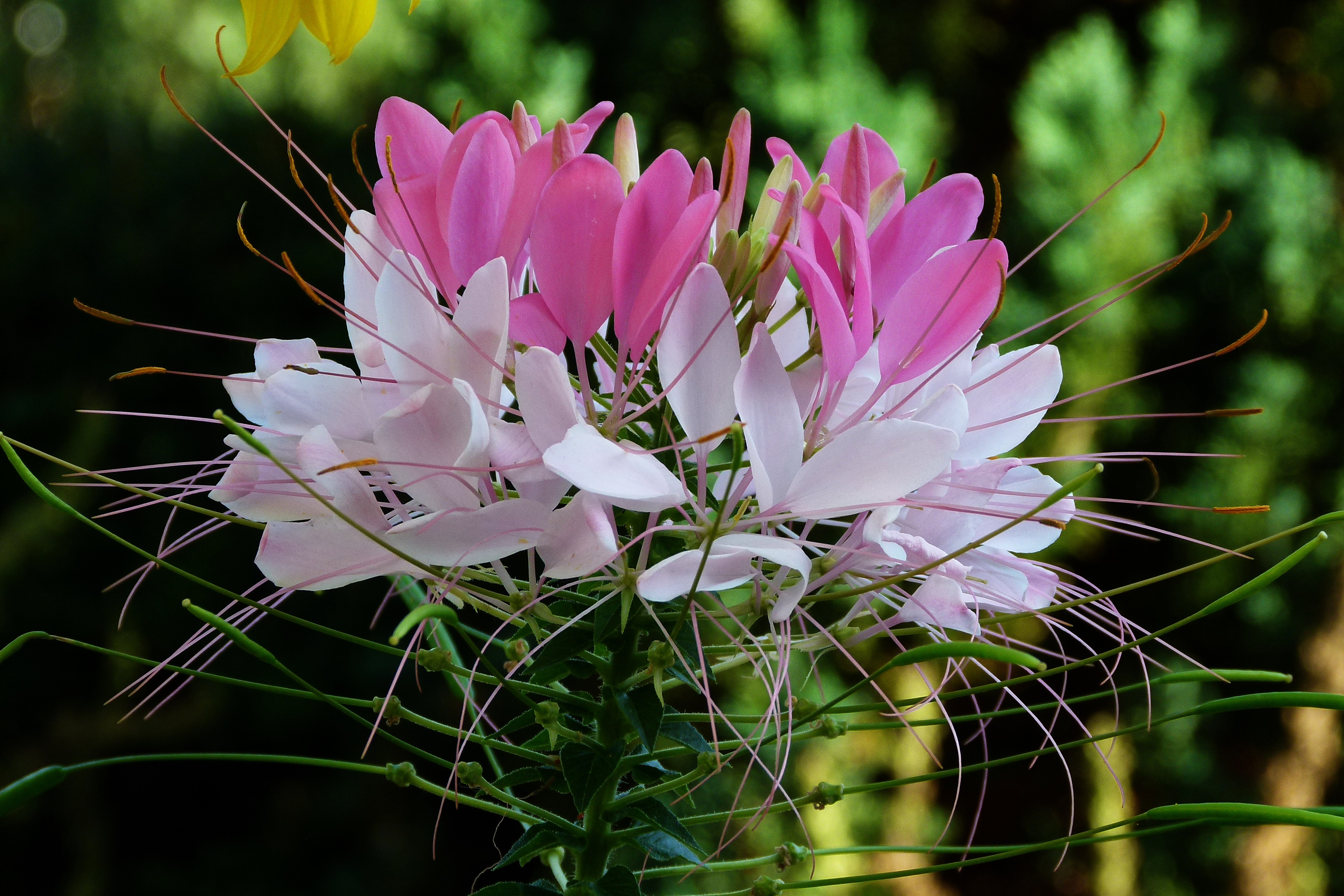 Cleome spinosa, flower